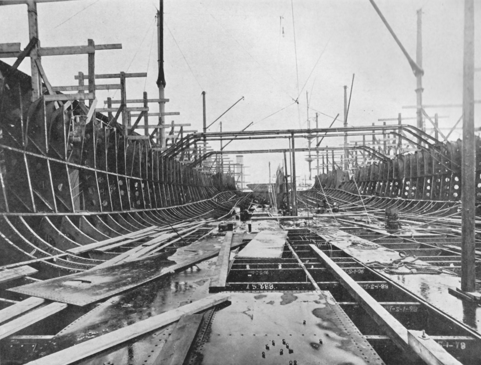 Original caption "HMS Dreadnought two days after her keel had been laid. nearly all the lower frames have been placed in position and partly riveted."